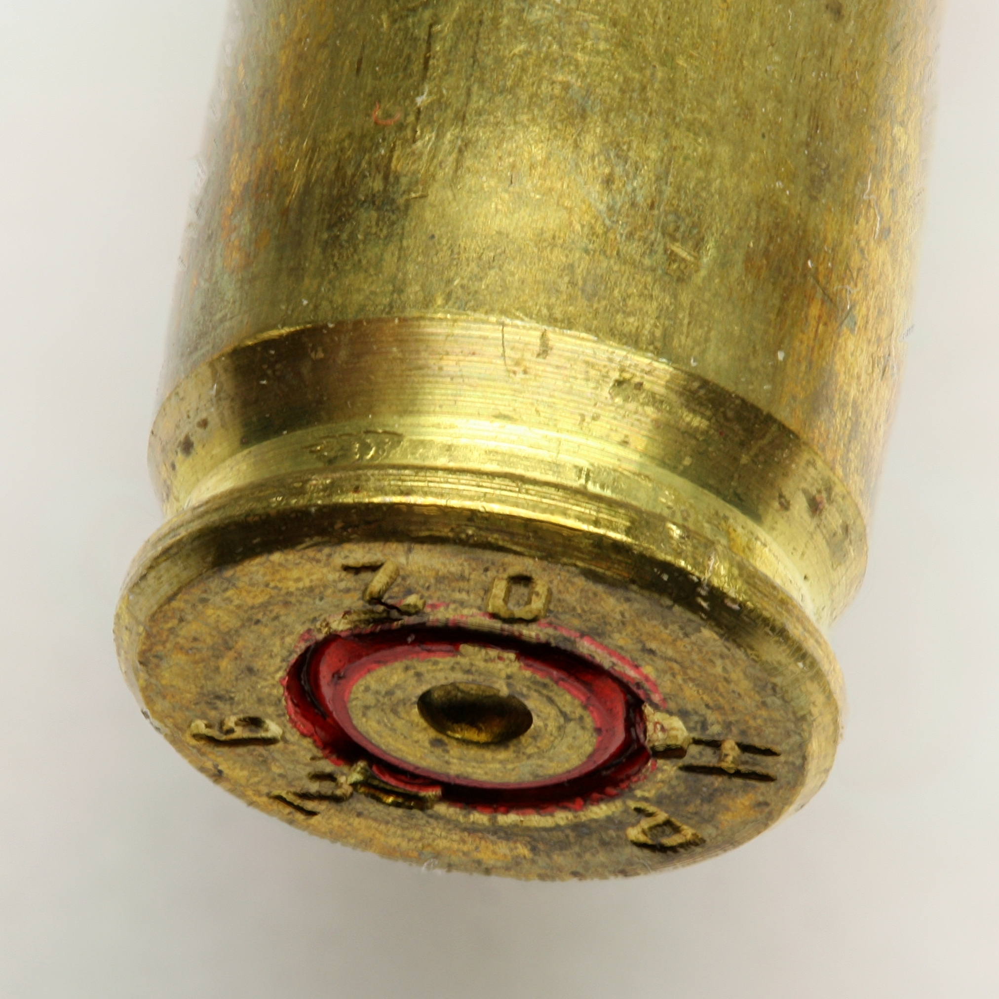 The back end of bullet casing of a 5.56 x 45mm NATO cartridges. Good to see is the rim.